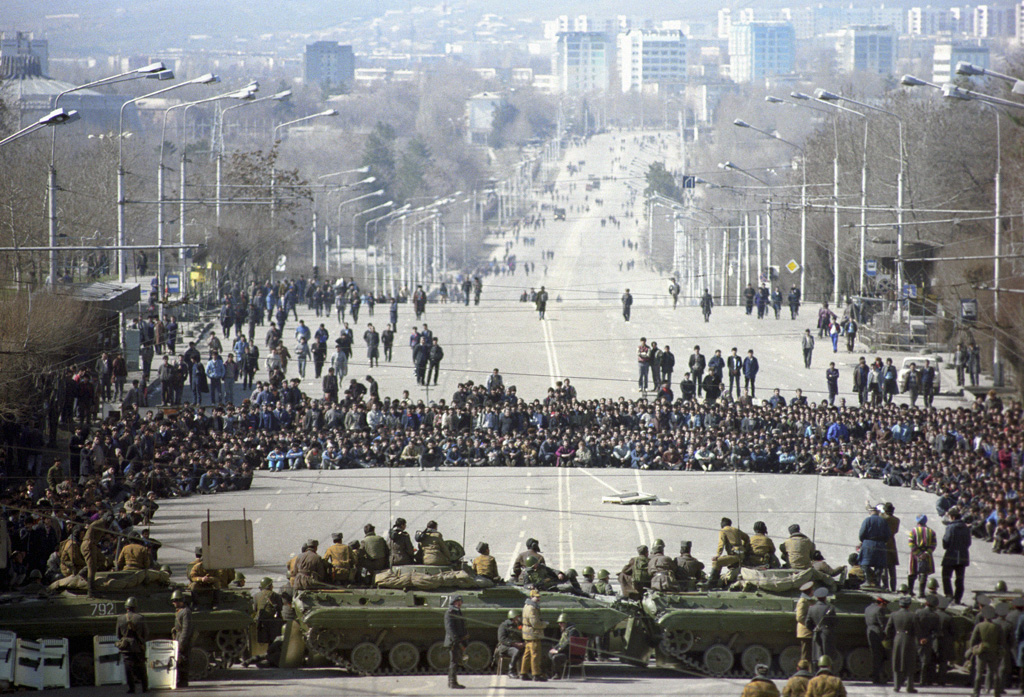 “Dushanbe riots, February 1990”. Dushanbe riots, February 10-17, 1990. Martial law is imposed in the city. Tanks on Lenin Prospekt.